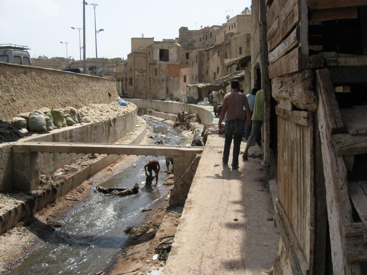 Fes, Old city